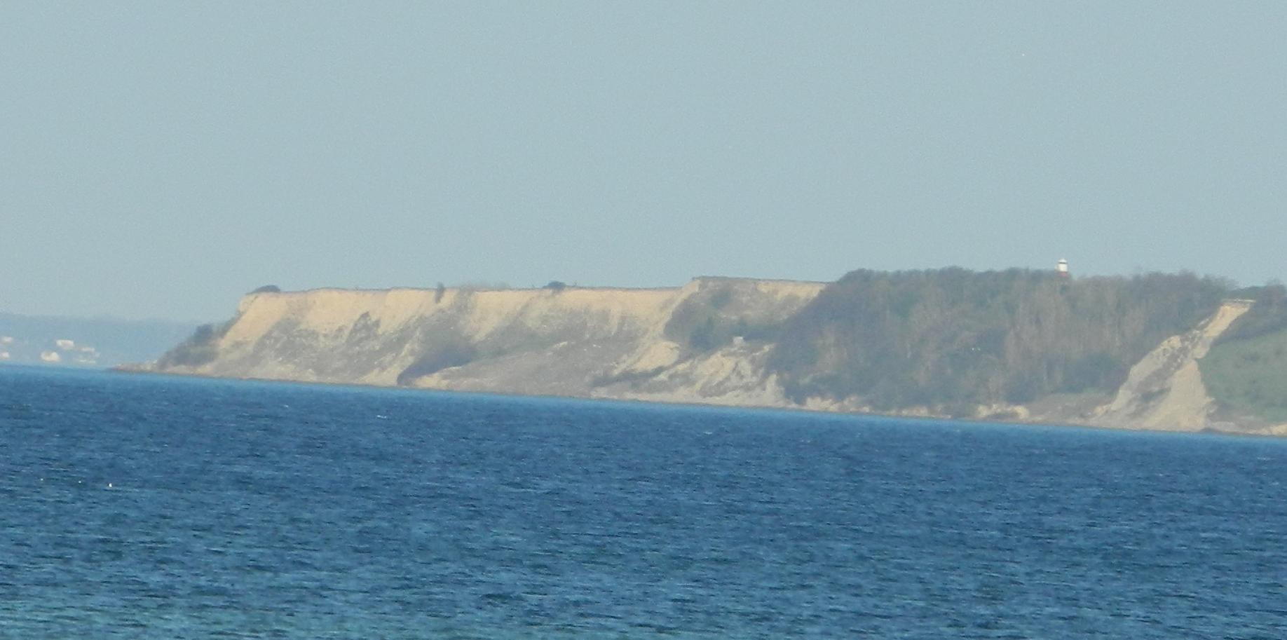 Scanian coastline at at the southern coast of Ven in Øresund.